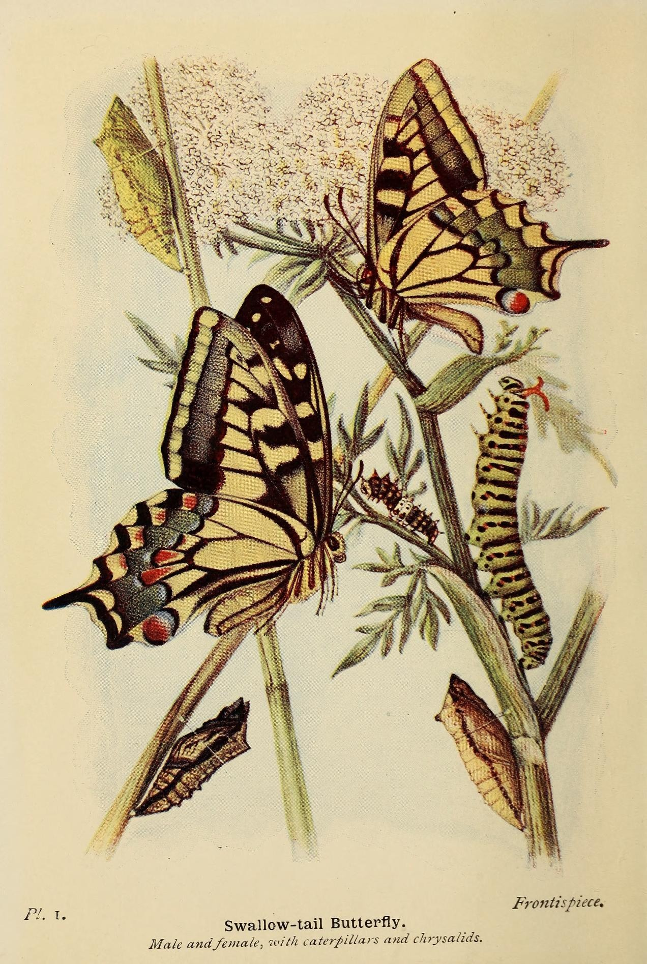 PI. I Swallow-tail Butterfly. Male and female, with caterpillars and chrysalids.